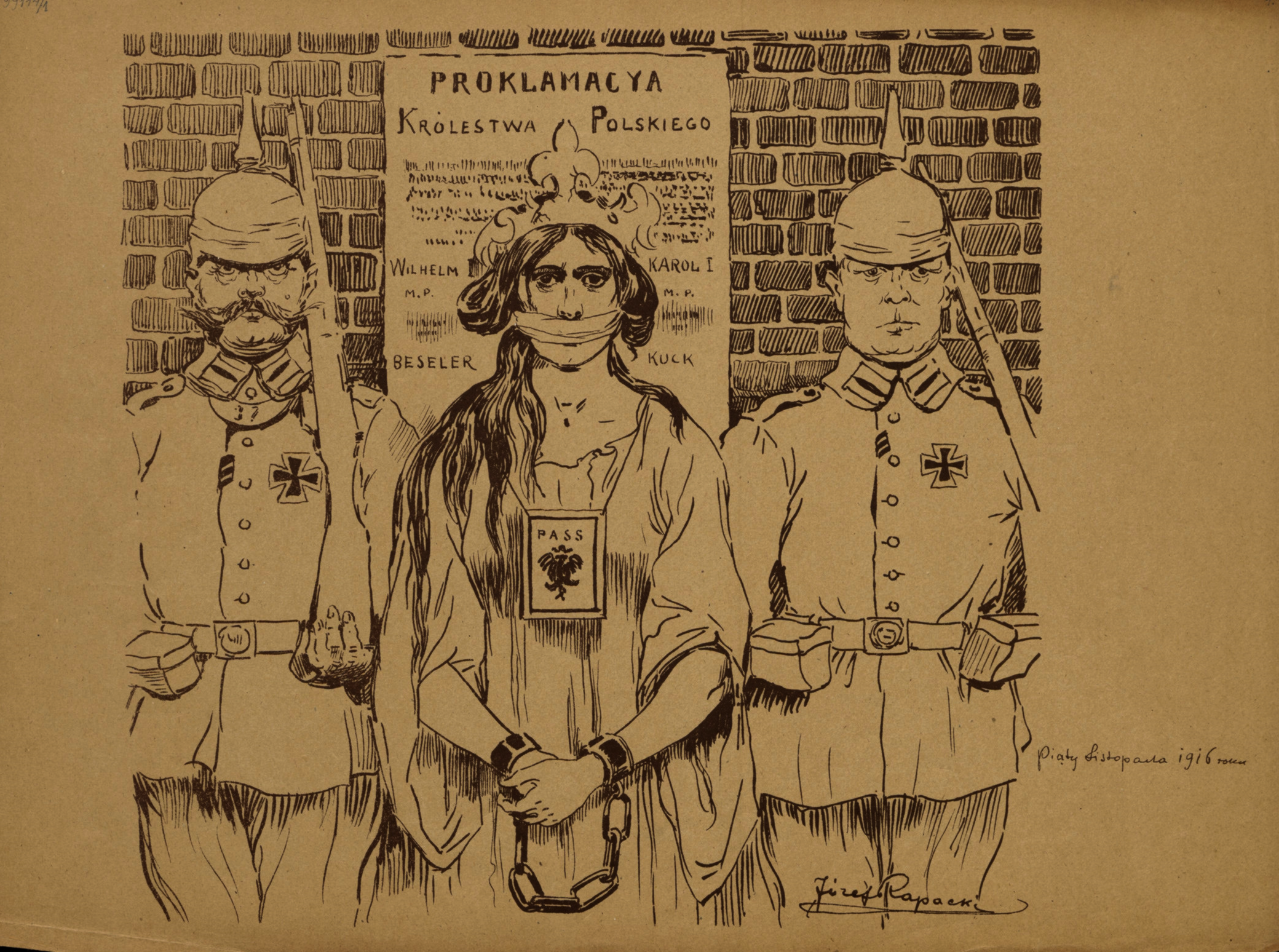 Piąty listopada 1916 roku, plansza 1. z teki „Pro memoria. Prusak w Polsce (1915-1918)”